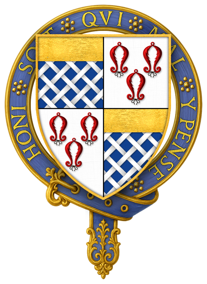 Coat of arms of Sir Anthony St. Leger, KG See Sir Anthony's stall plate within St. George's Chapel. The plate is currently viewable online at the Royal Collection Trust website. The ams show quarterly 1 & 4: Azure fretty argent, a chief or (St Ledger); 2 & 3: Argent, three pairs of barnacles gules tied sable (Donet of Silham, Rainham, Kent; source: Hasted, Edward, The History and Topographical Survey of the County of Kent: Volume 6, 1798, pages 4-15, Parishes: Rainham [1] concerning the estate of Silham in the parish of Rainham, Kent: "At length it descended down to James Donet, who died in 1409, holding this manor in capite. He lies buried in the high chancel of this church (i.e. Rainham), in one of the windows of which were formerly his arms, Argent, three pair of barnacles, gules. On his death without male issue, his sole daughter and heir Margaret carried this manor in marriage to John St, Leger, esq. of Ulcomb, sheriff anno 9 Henry VI. whose descendant Sir Anthony St. Leger, lord deputy of Ireland in king Henry the VIIIth.'s reign alienated that part of his estate here purchased of Reynham, and other lands late belonging to the priory of Leeds").